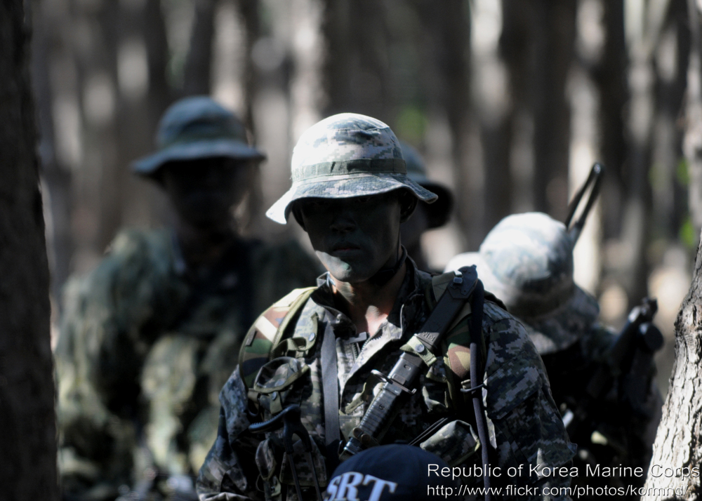 2012. 10. 해병대 수색정찰 훈련 Rep.of Marine Corps Reconnaissance Training